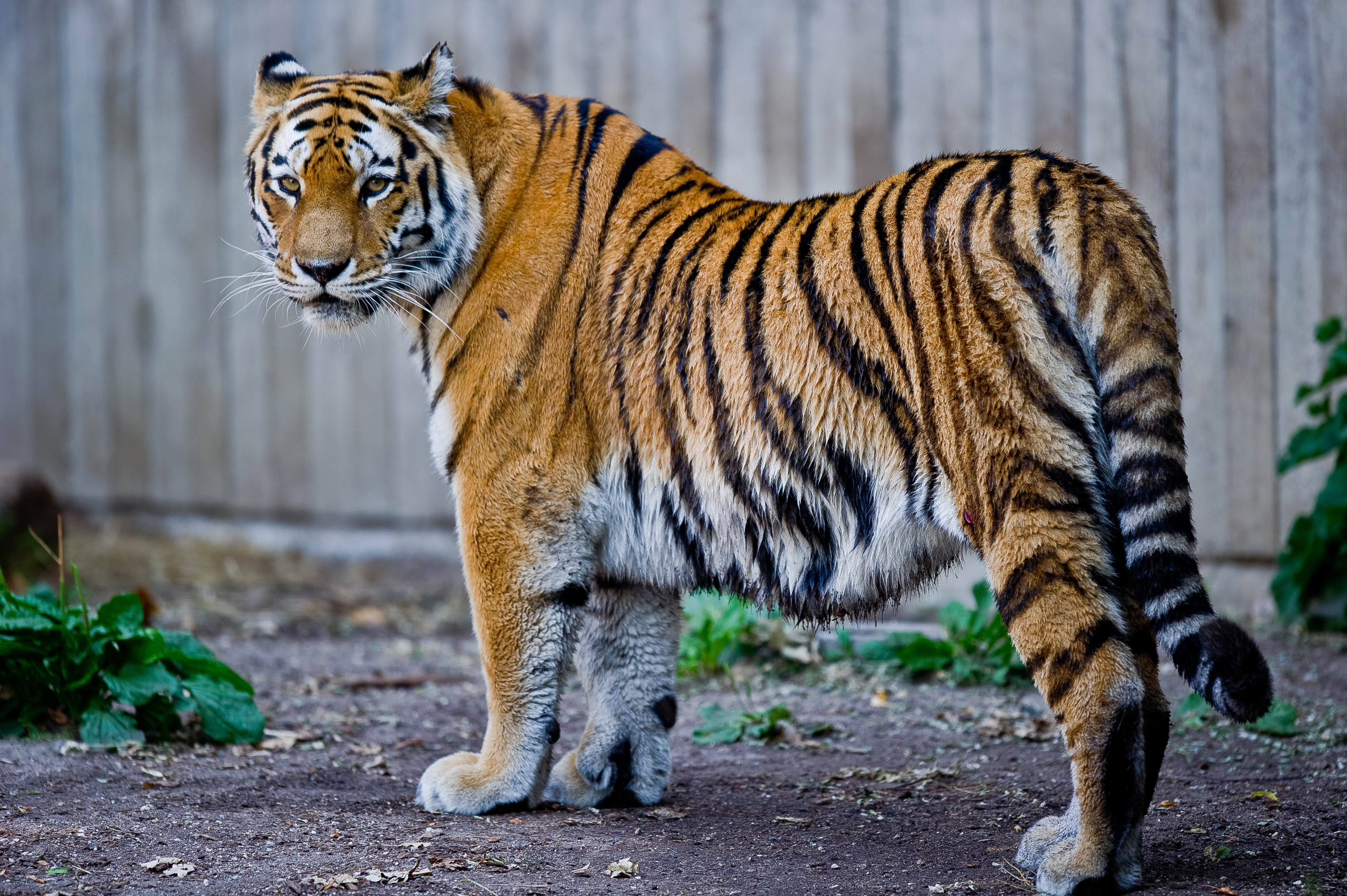 Captive Siberian tiger - Copenhagen Zoo, Denmark